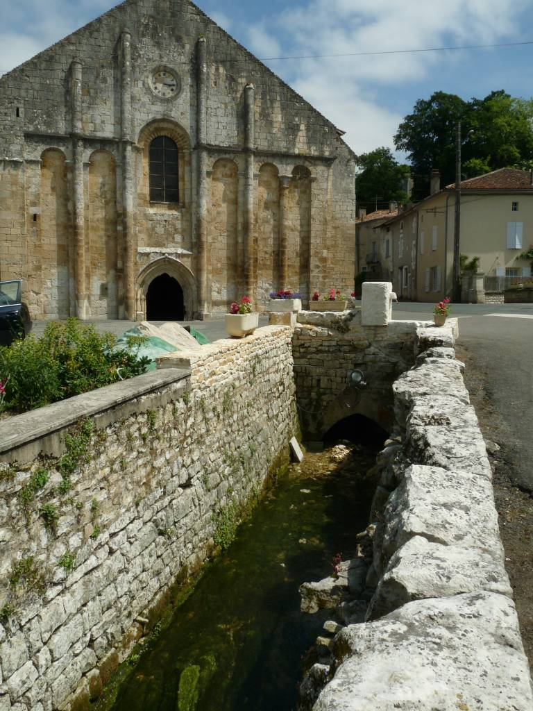 Church of Cellefrouin and fountain, Charente, France